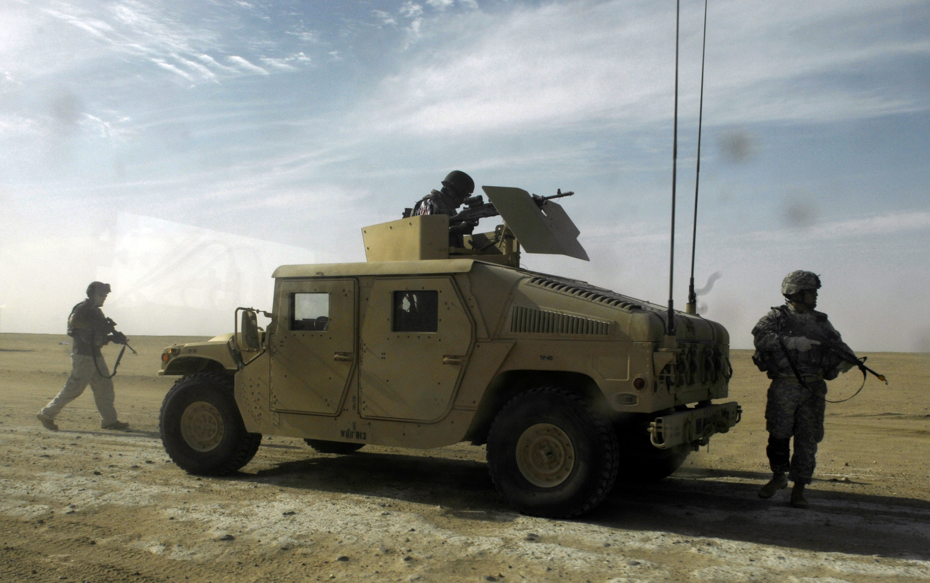 U.S. Army soldiers, with the 1st Calvary Division, go on a training convoy with participants of the Joint Civilian Orientation Conference 72, at Forward Operating Base Dagger, Kuwait, Oct. 19, 2006.